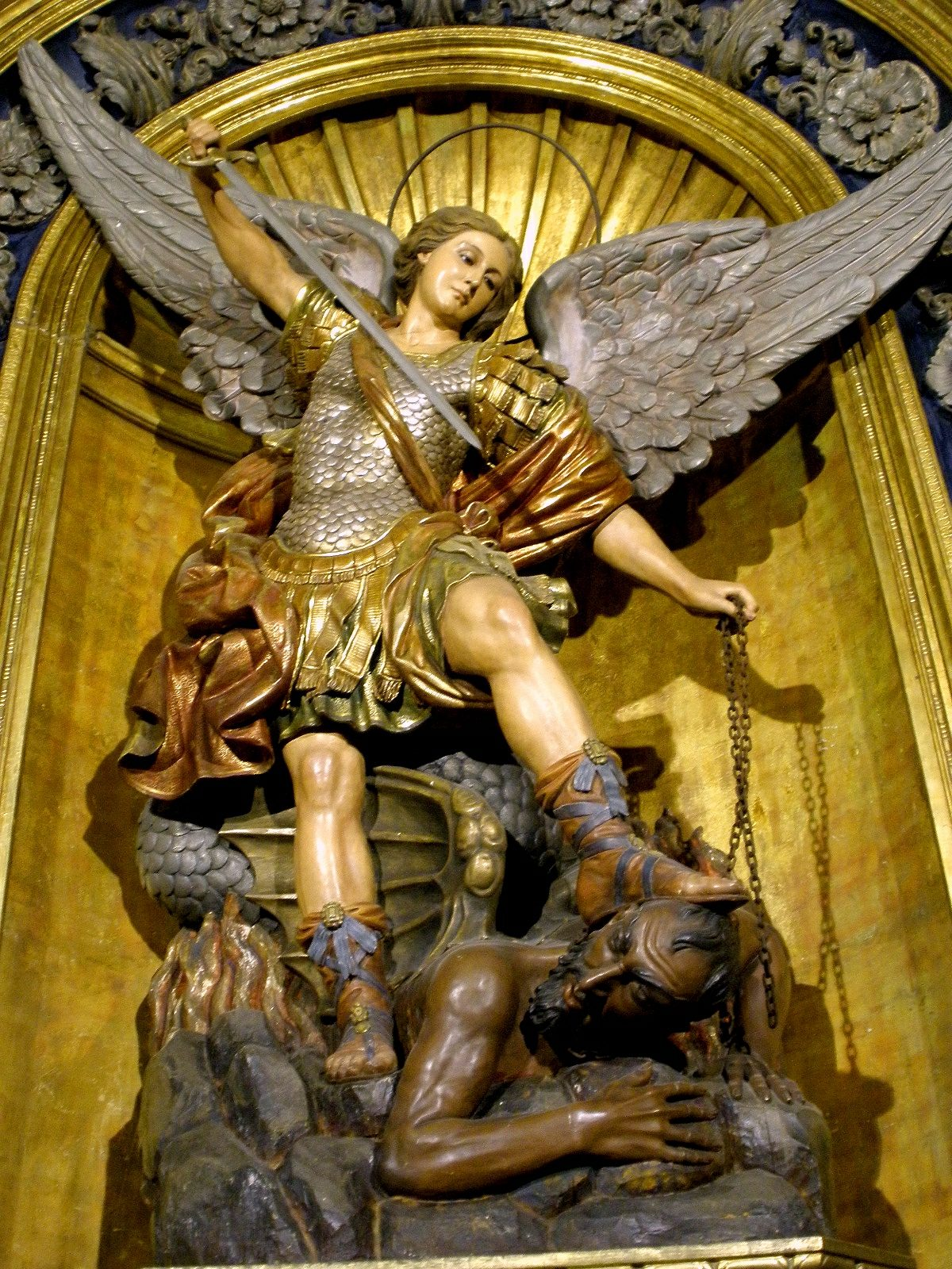 Talla de San Miguel Arcángel en la Basílica de la Merced de Barcelona